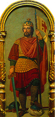 Garcia Sanchez I of Navarre